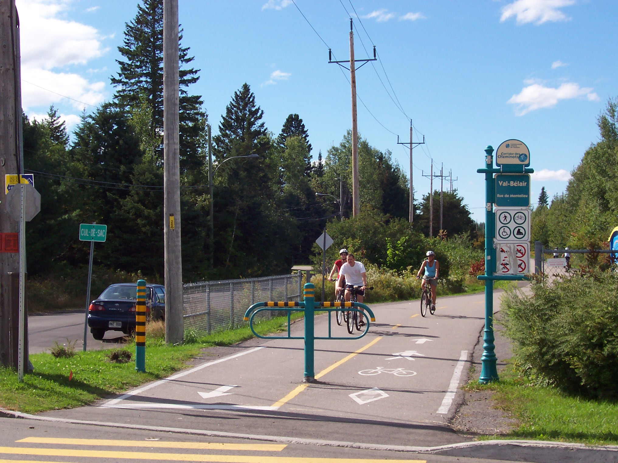 "Corridor des cheminots" cycling trail, Val-Bélair, Laurentien borough, Quebec City (Quebec, Canada), september 8th, 2007.